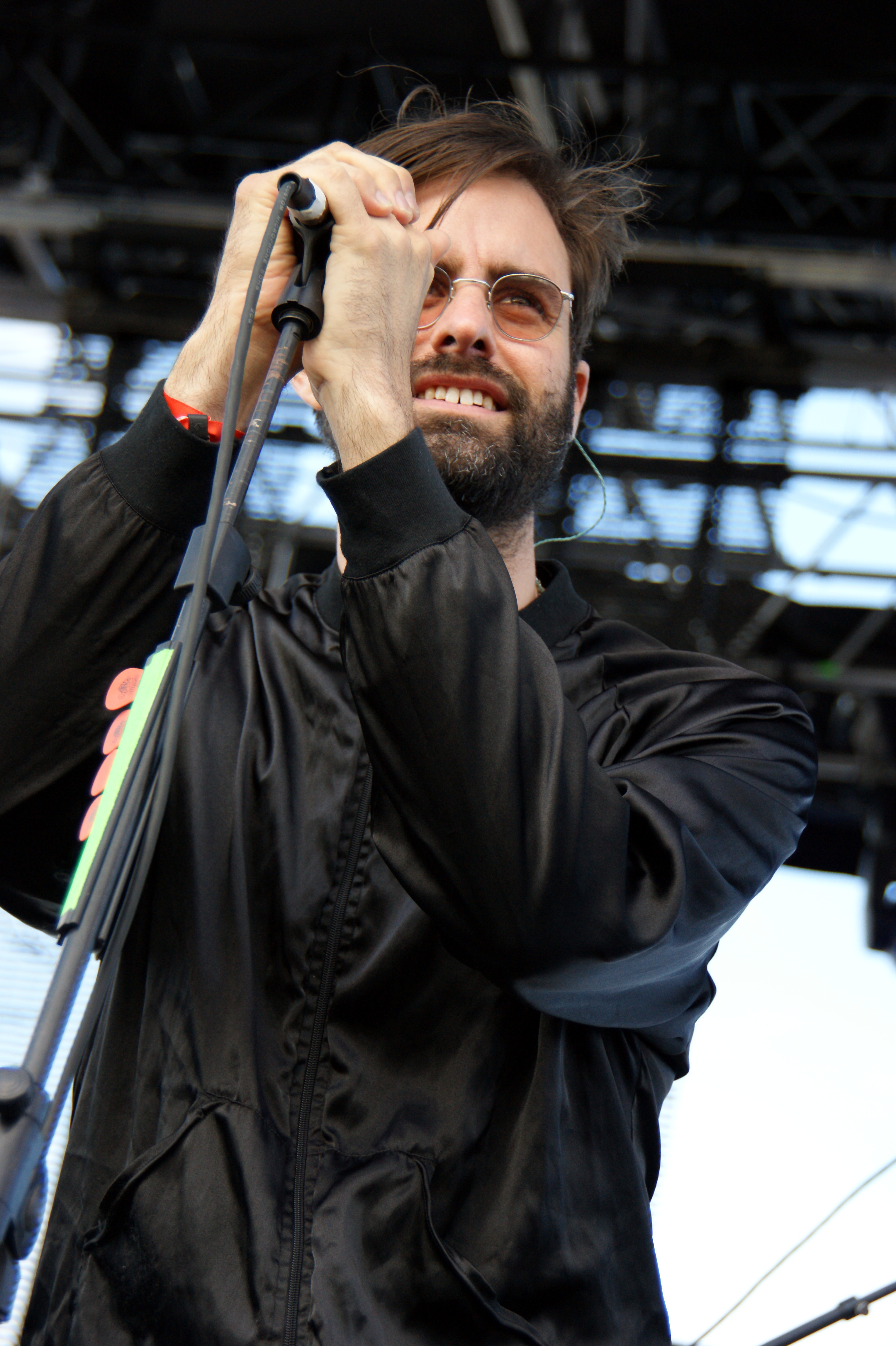 Miike Snow lead singer Andrew Wyatt at Sasquatch 2010